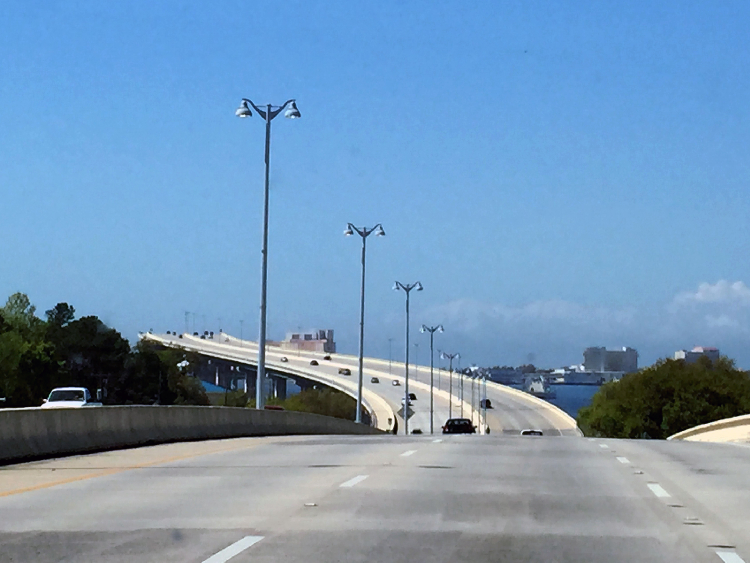 Biloxi Bay Bridge, looking east towards Ocean Springs